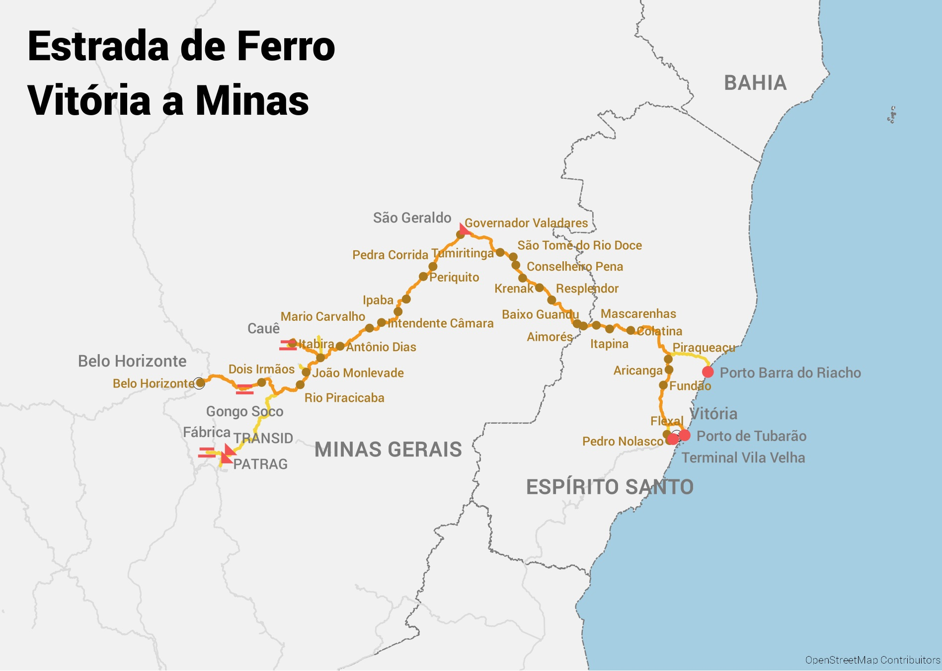 Railway Line of EFVM - Estrada de Ferro Vitoria - Minas (VALE)